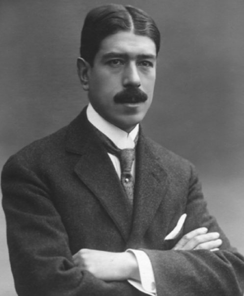 Bolivian writer and politician Alcides Arguedas